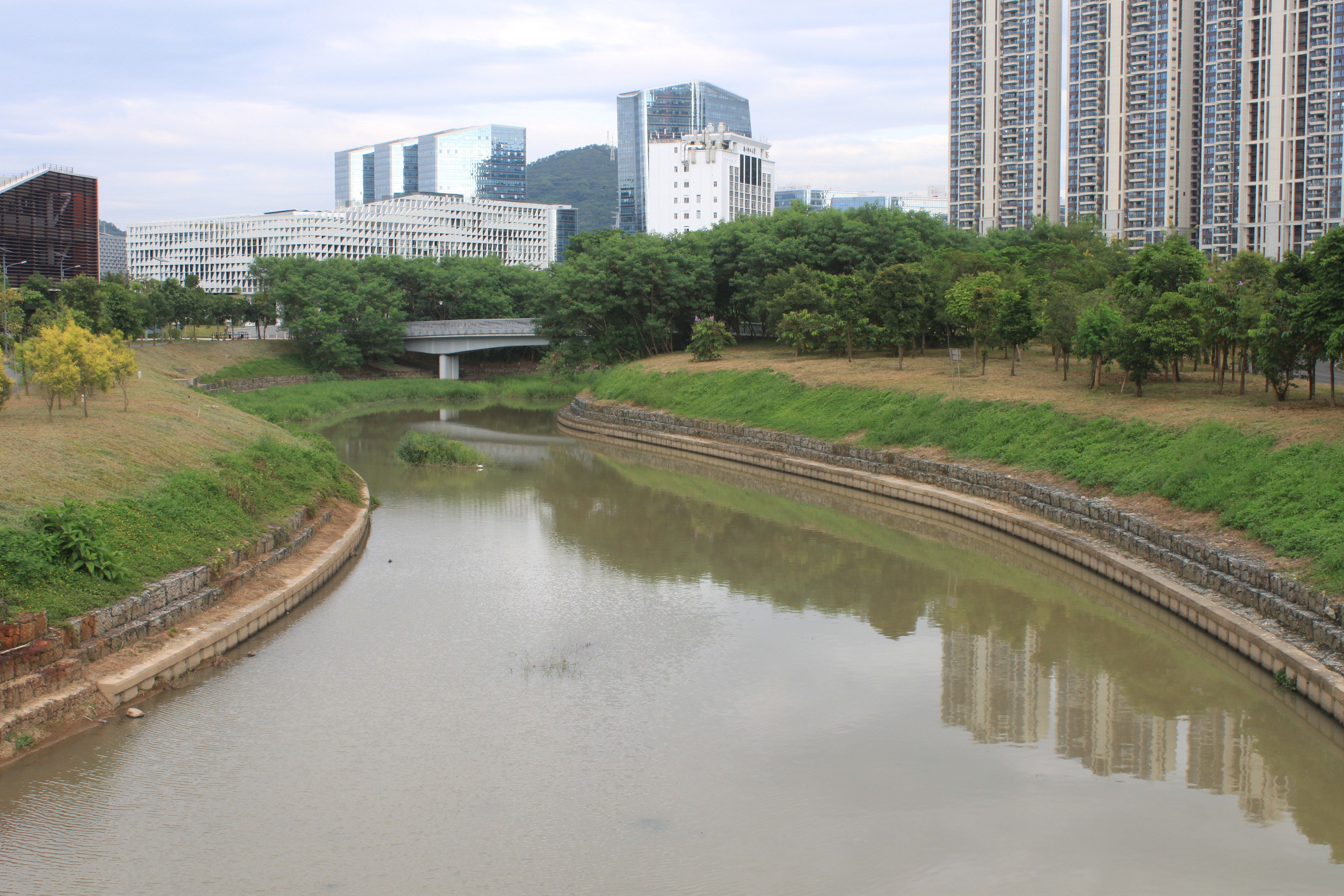 The Changlingpi Stream near the South University of Science and Technology. The Changlingpi Stream, begins in Changlingpi Reservoir, is a stream that is a tributary of the Dasha River, located in Xili University Town, Nanshan District, Shenzhen, Guangdong, China.